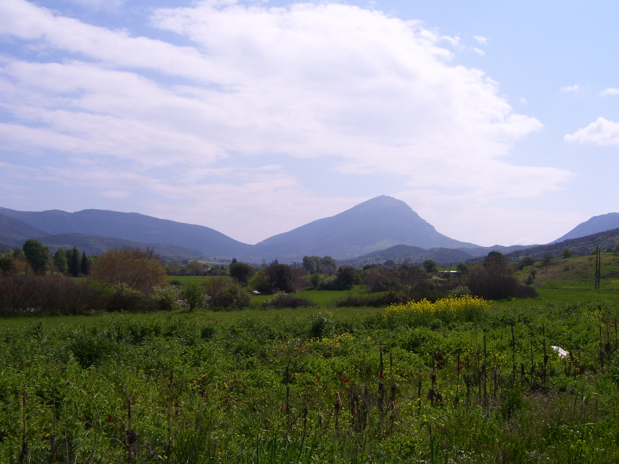 Ortholithi Mountain in Troizinia, Greece